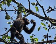 Chimpanzee does tree top picking, Bossou, Guinea, 30 Jan 08. Environmentalists trying to save chimpanzees at a UNESCO World Heritage protected area in Guinea are facing resistance from villagers who say their needs are being ignored. VOA's Nico Colombant reports from the Mount Nimba nature reserve, in eastern Guinea, about the difficult balance between environmental and economic concerns.